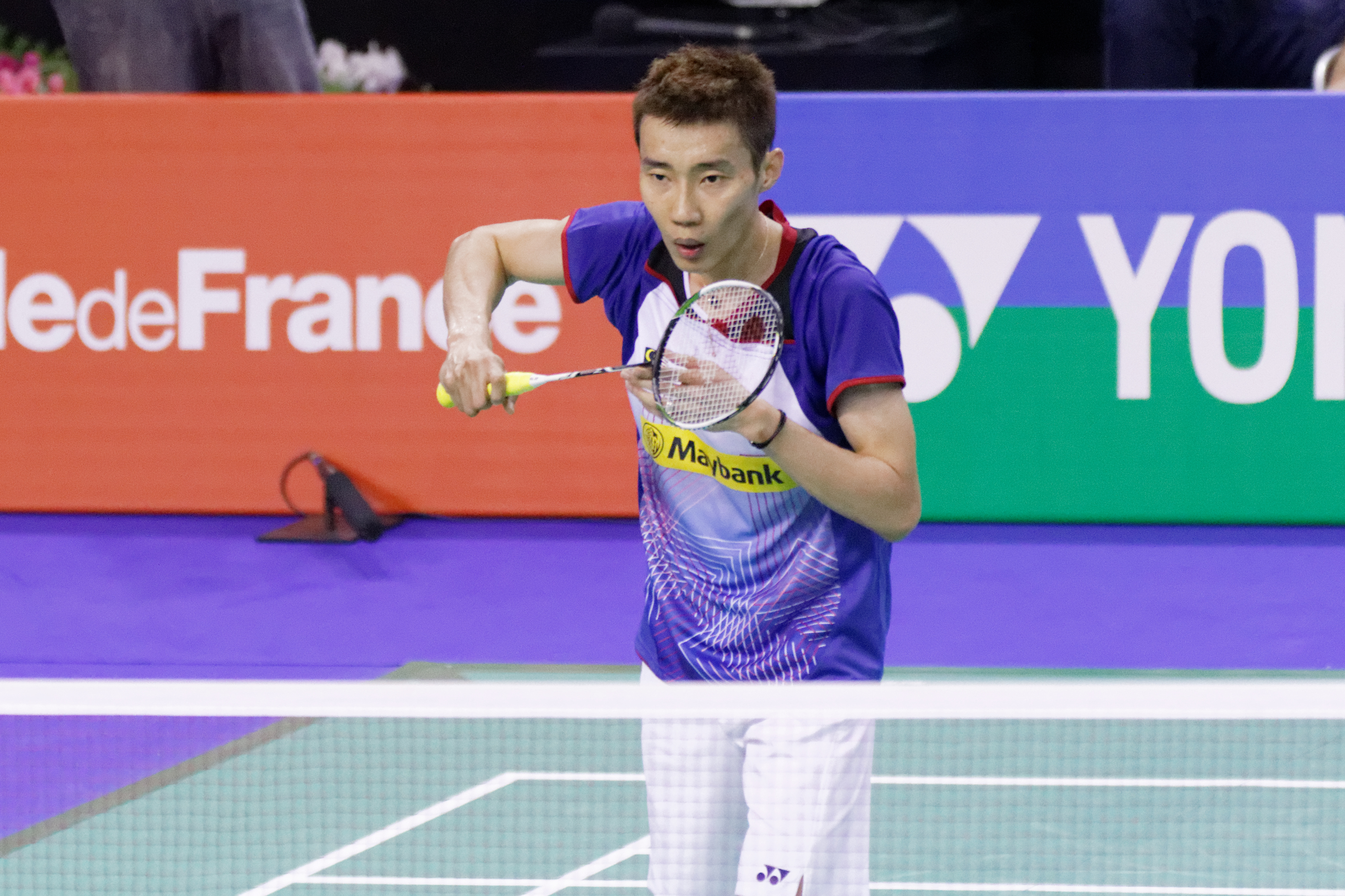 2013 French open. Men's singles eightfinal. Lee Chong Wei vs Ajay Jayaram.